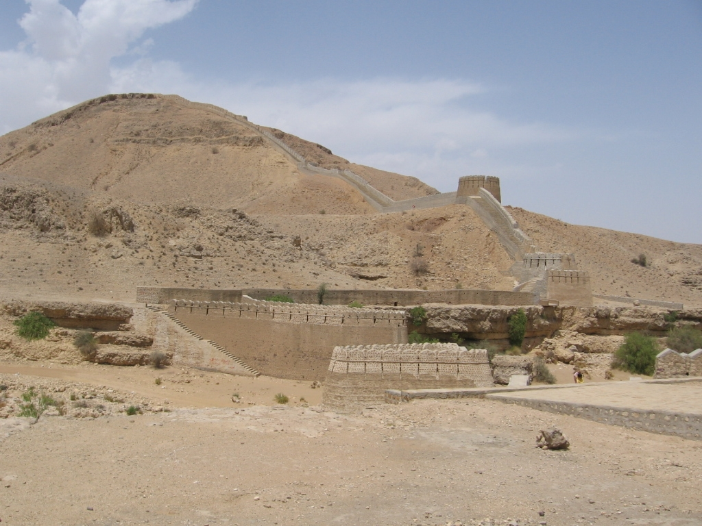 "Picture of Ranikot Fort in Sindh, Pakistan."